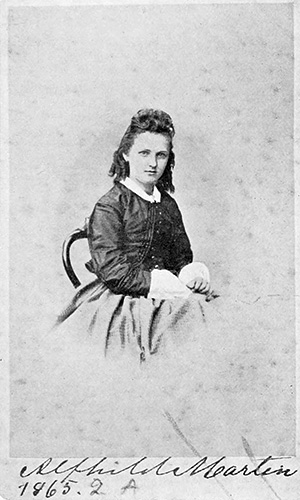 Alfhild Agrell (1849-1923)